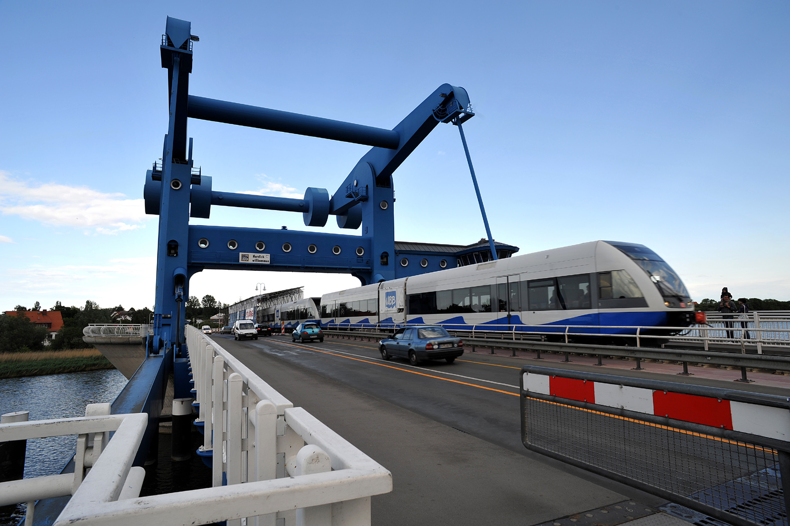 Peene bridge in Wolgast with train of the UBB; Mecklenburg-Vorpommern, Germany.